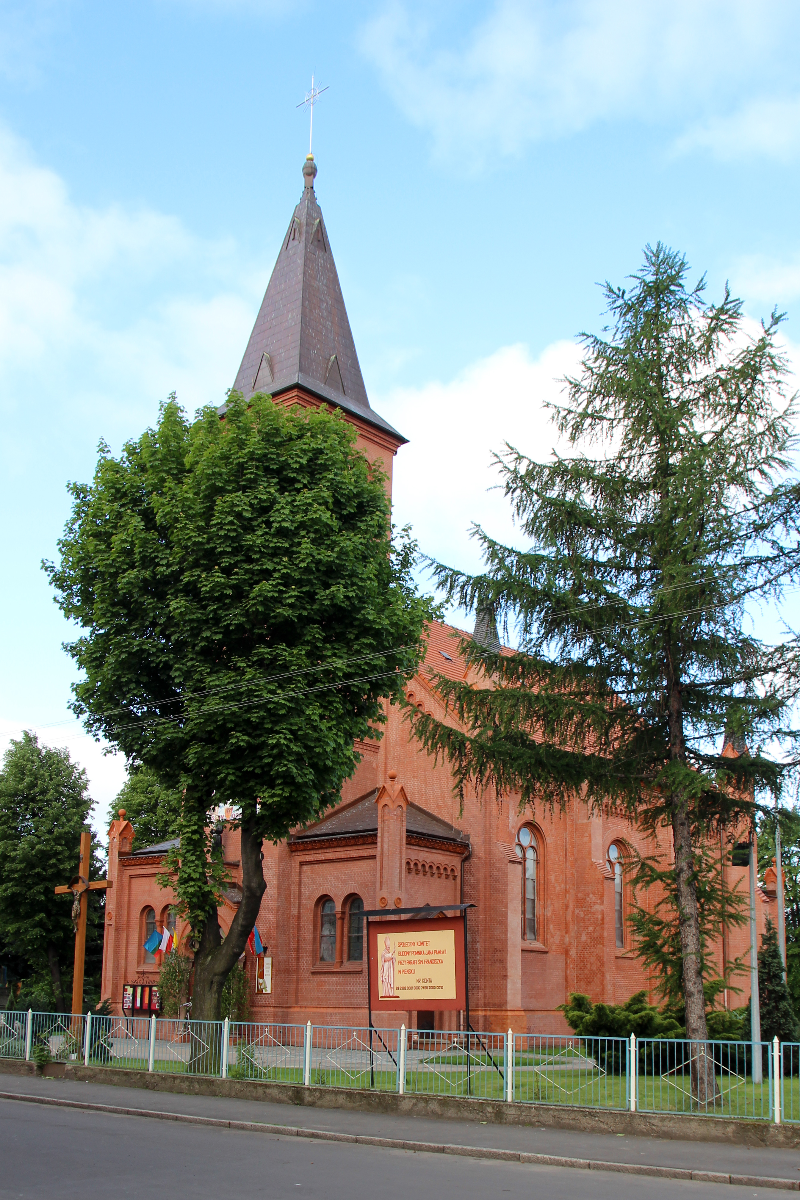 Saint Francis of Assisi church in Pieńsk, Poland